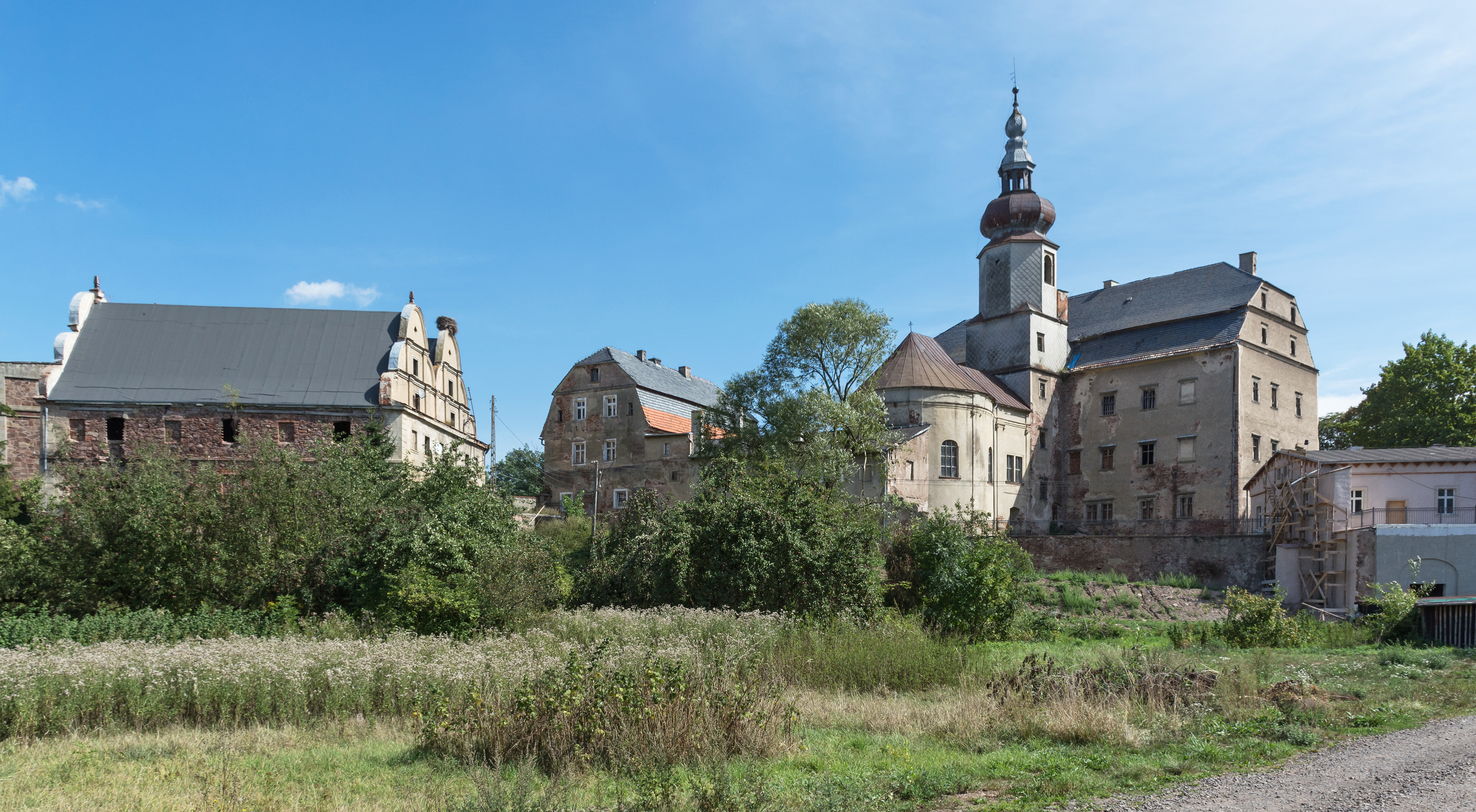 Sarny Palace complex